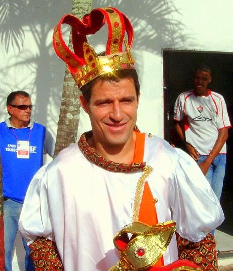 Ramon photo